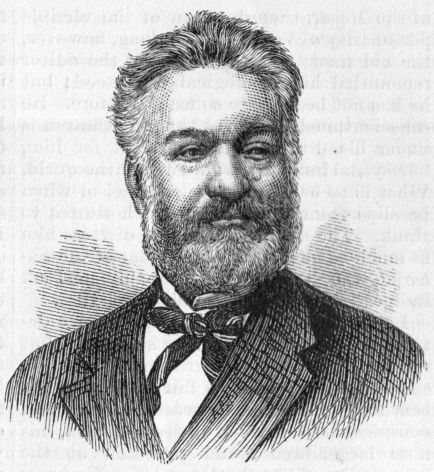 Engraving of Louis Veuillot.